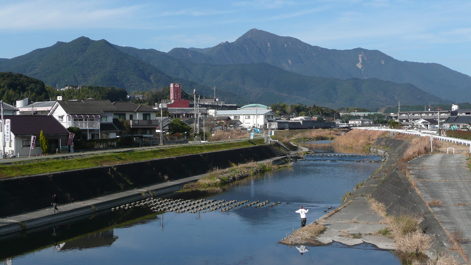 Kimotsuki River (Utsuma, Kanoya City, Kagoshima, Japan)